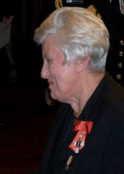 Dame Alison Quentin-Baxter, at her redesignation as a Dame Companion of the New Zealand Order of Merit, at Old St Paul's, Wellington, on 14 August 2009.